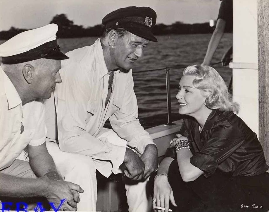 John Farrow, John Wayne, and Lana Turner on set of The Sea Chase